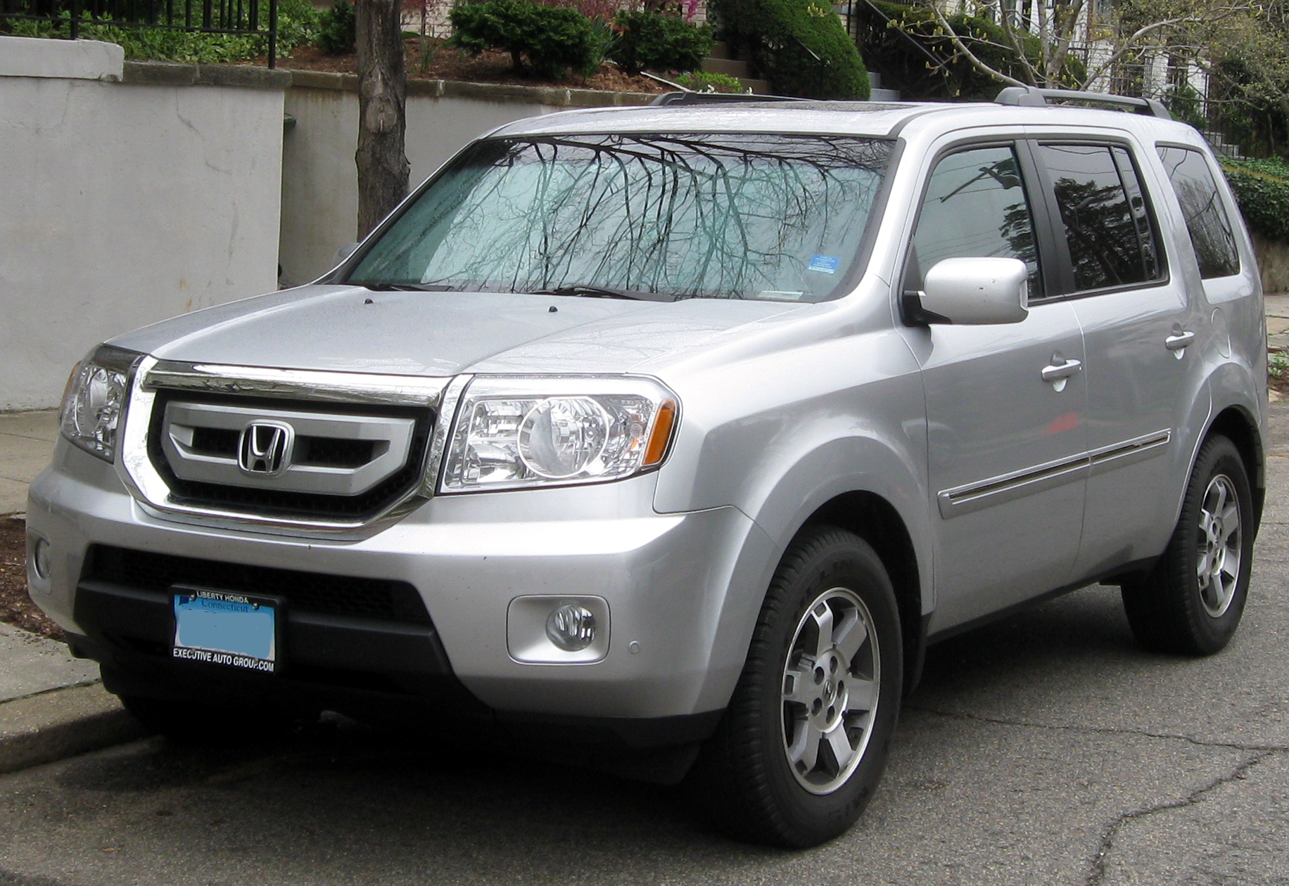 2009-2011 Honda Pilot photographed in Washington, D.C., USA.